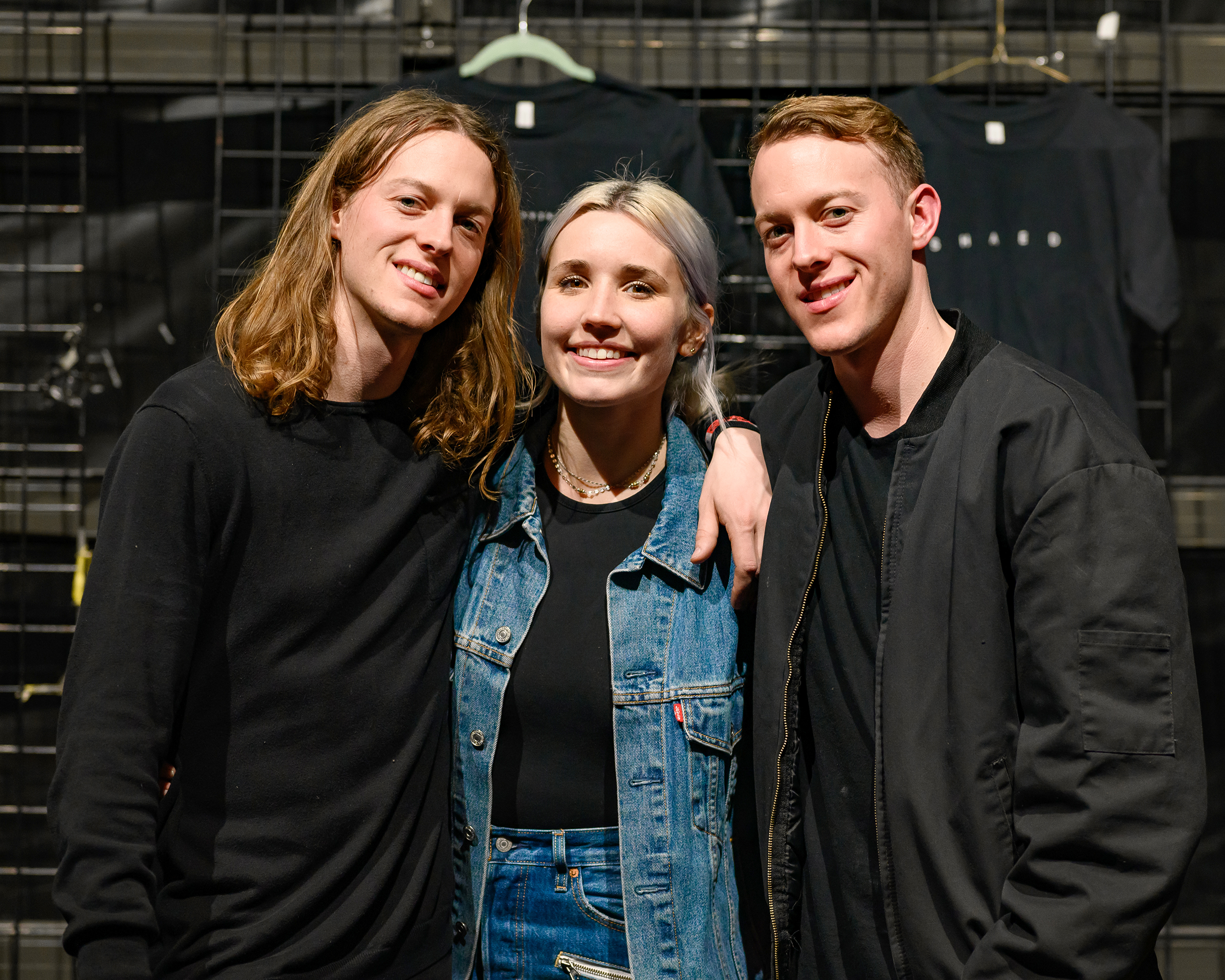 Shaed performing live in the Constellation Room at the Observatory OC in Santa Ana, Orange County, California, on Thursday, March 14, 2019.